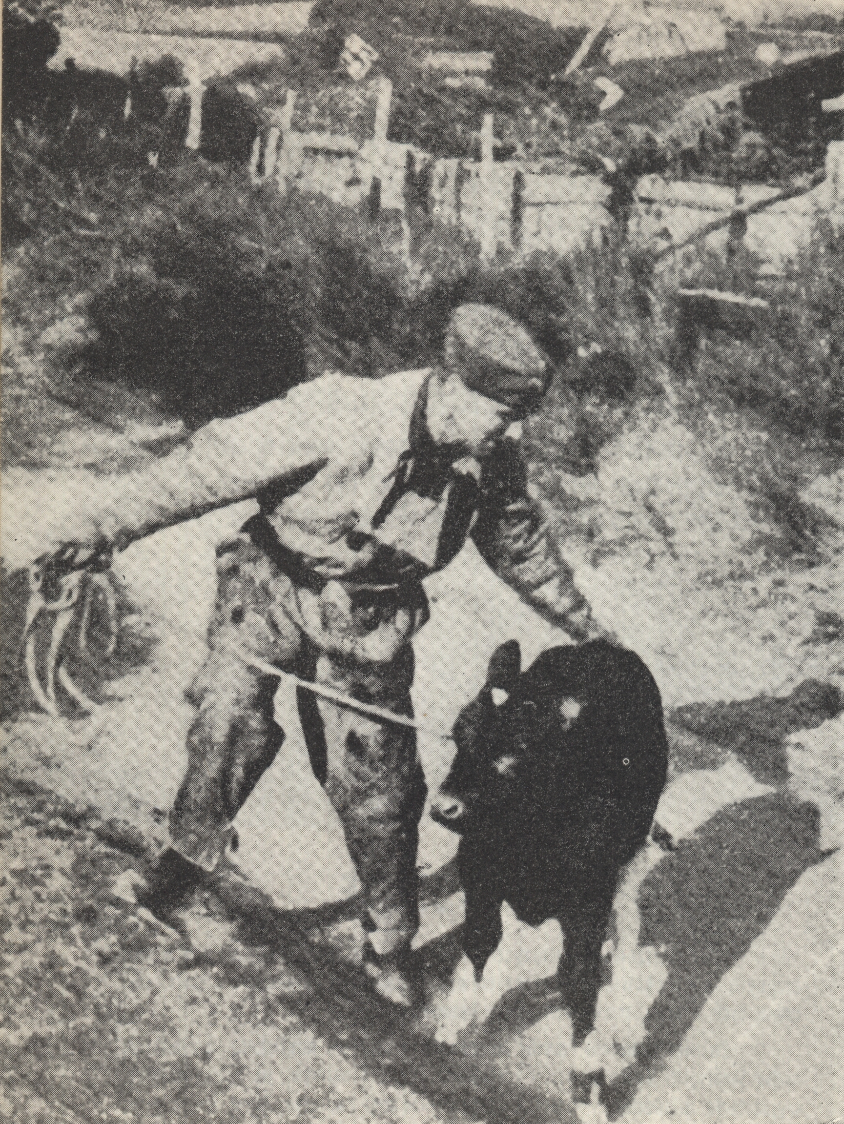 Cattle confiscation in German-occupied Poland.